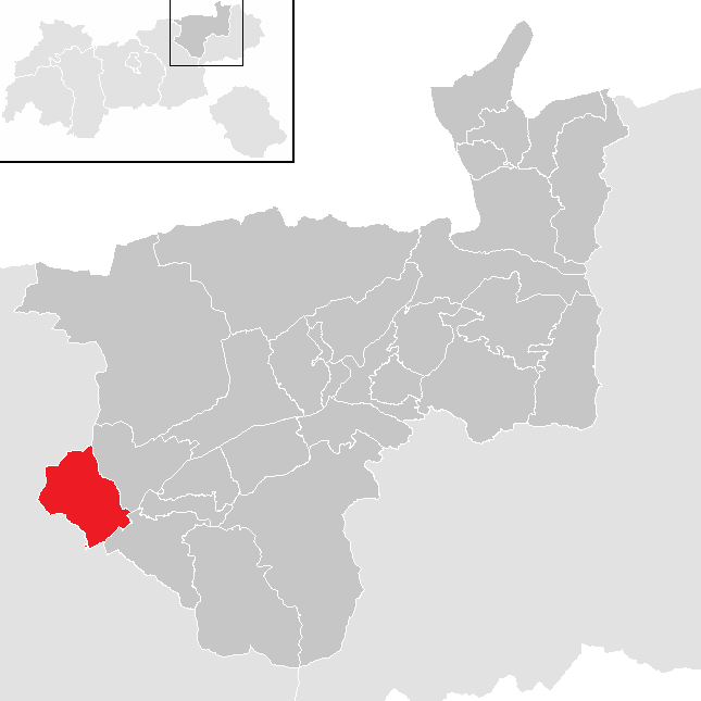 District Kufstein